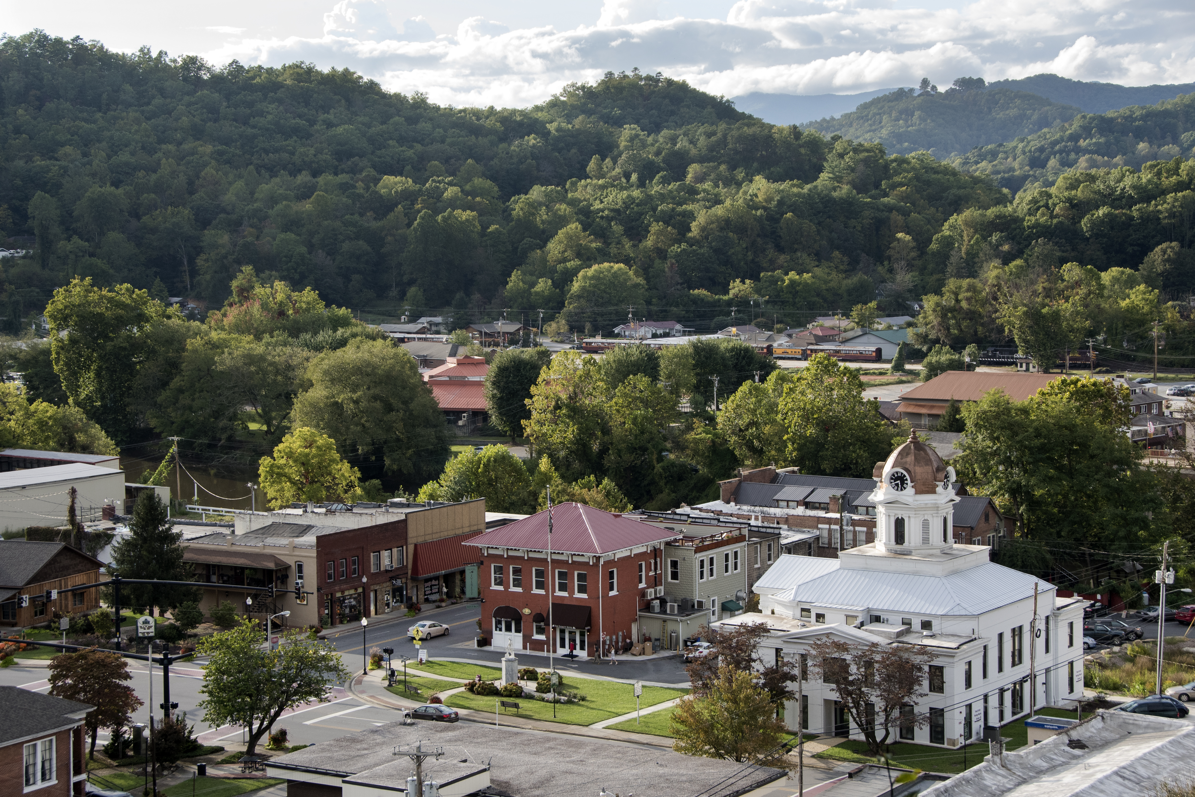 Downtown Bryson City, featuring the historic Swain County Courthouse, now a visitor center and heritage museum. The Great Smoky Mountains National Park highlights the mountains on the horizon.